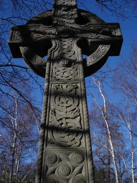 Memorial to Andrew Holmes Reed at Abney Park Cemetery, signed O'Shea, Kilkenny, Ireland, mason.